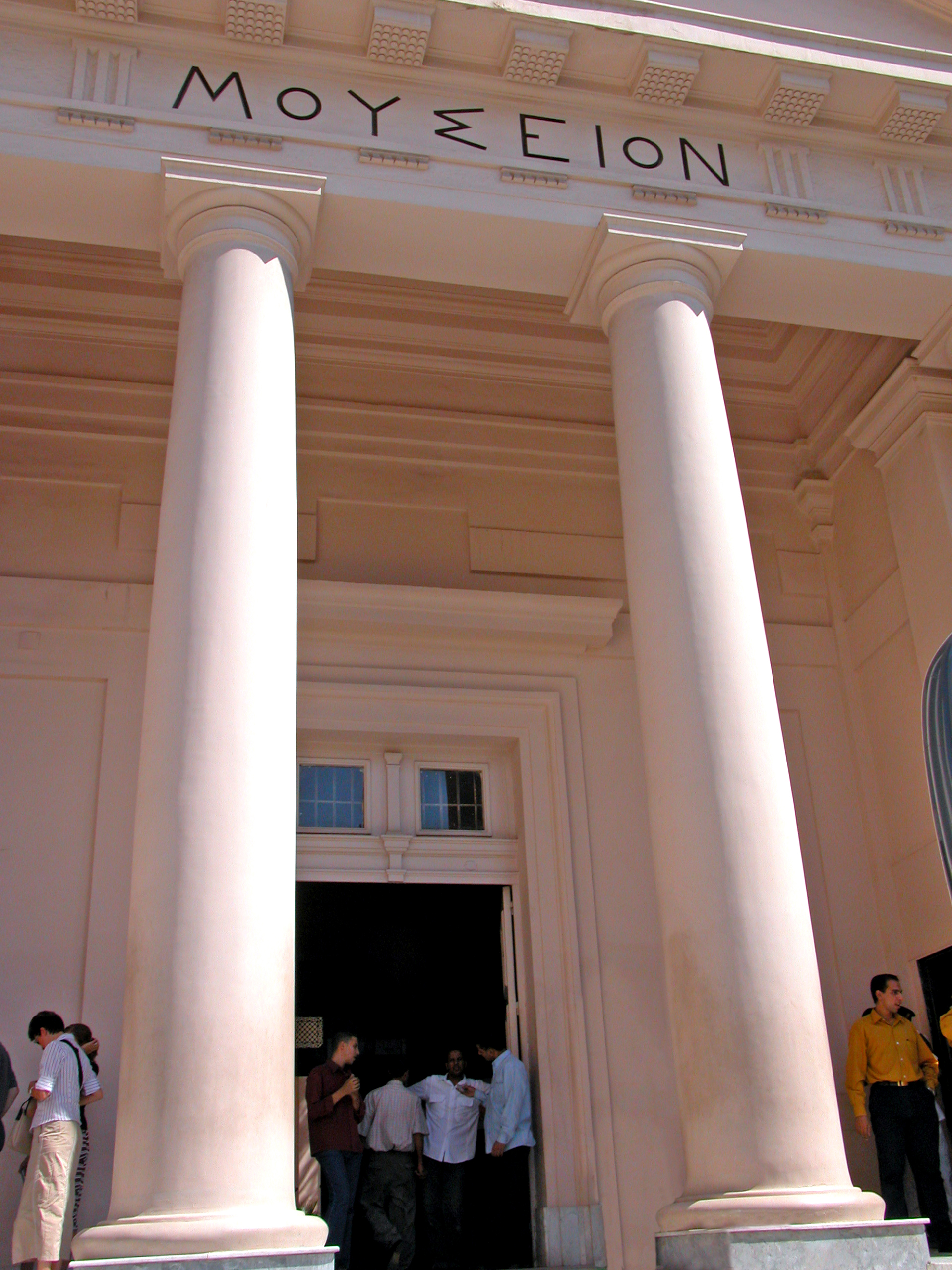 The Greco-Roman Museum houses many collections of rare Greek and Roman relics and coins – about 40,000 pieces, from the 3rd century BC to the 7th century AD. The most important being the “Tanafra” statues. There is also a magnificent black granite sculpture of Apis, the sacred bull worshipped by Egyptians. There is also an assortment of mummies, sarcophagi, pottery, jewellery and ancient tapestries. Alexandria, Egypt